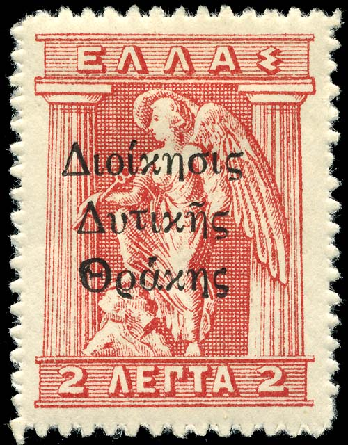 Thrace: Greek occupation of Western Thrace postage stamp, 2-lepta, overprint Διοίκησις Δυτικής Θράκης on 1913 lithographic issue definitive stamp.